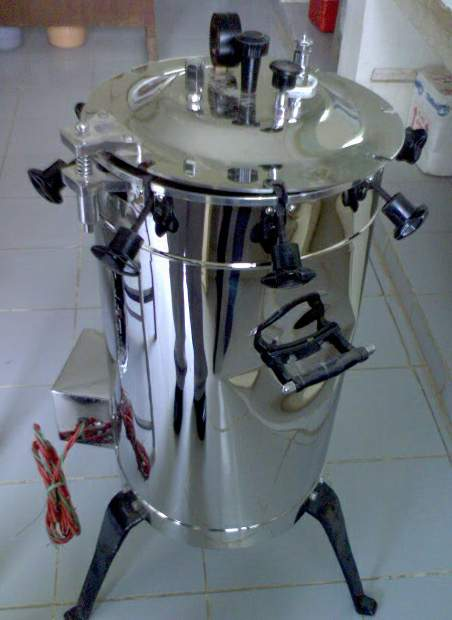 Simple "pressure cooker" type autoclave